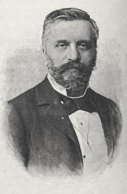 Gusztáv Heinrich